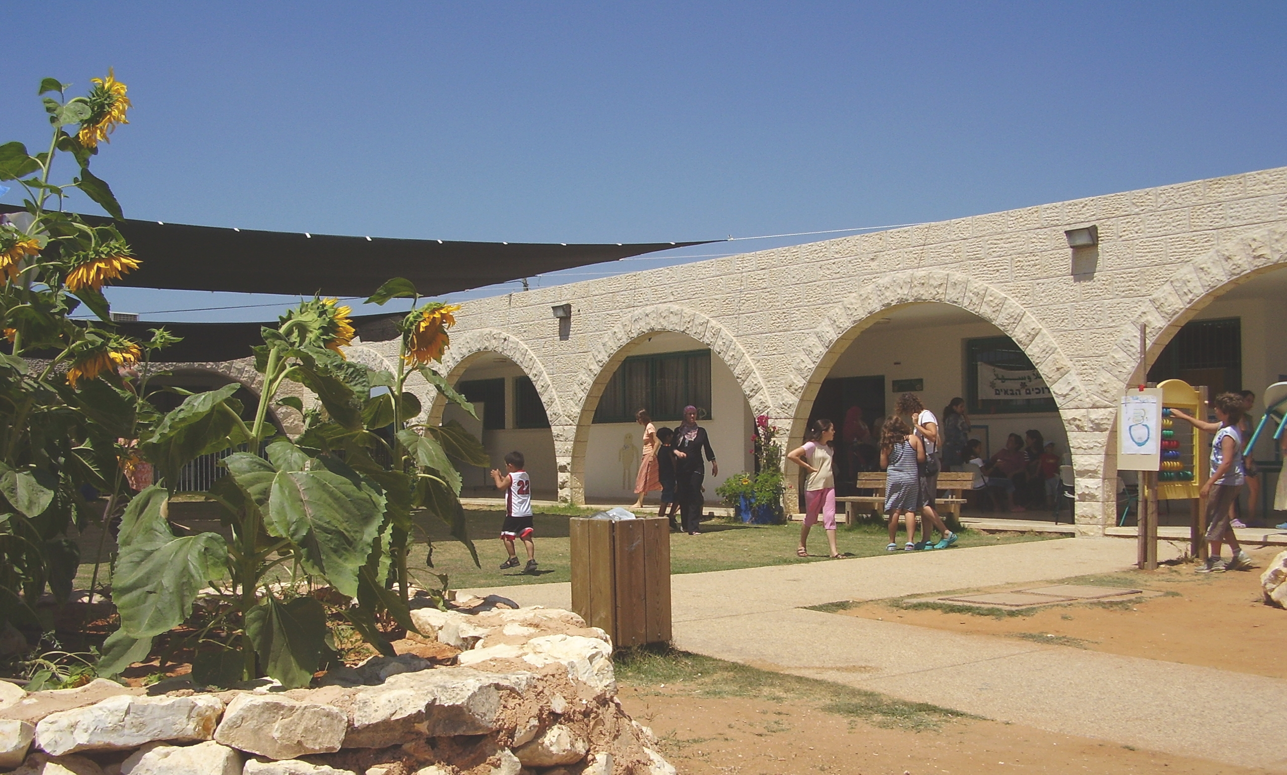 Hand in Hand's "Bridge over the Wadi" School in Kafr Kara, Israel, during the "Community Happening" on June 17, 2006